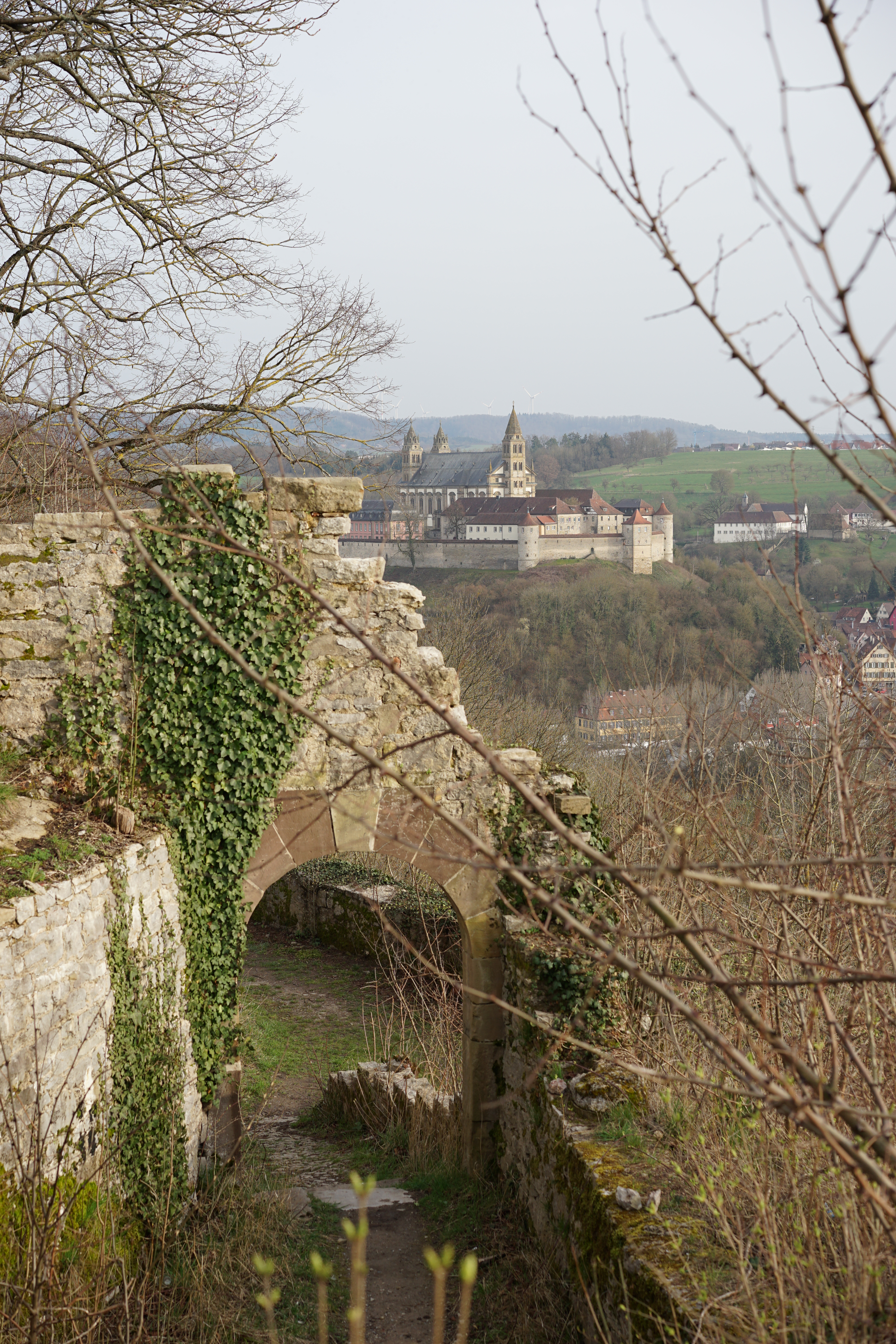 Ruins of the Limpurg next to Schwäbisch Hall (Germany), with view to the Comburg in the background.